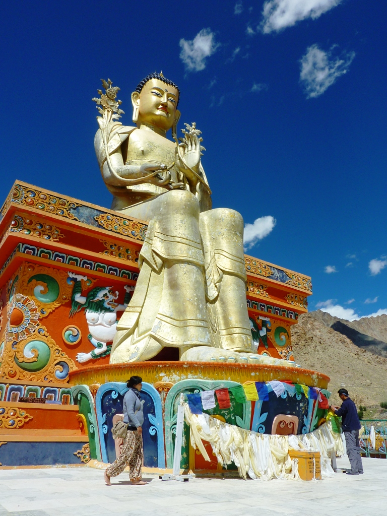 I took this photo myself on a trip to Ladakh last year.